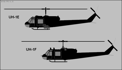 UH-1E and UH-1F models of the UH-1 Iroquois helicopter